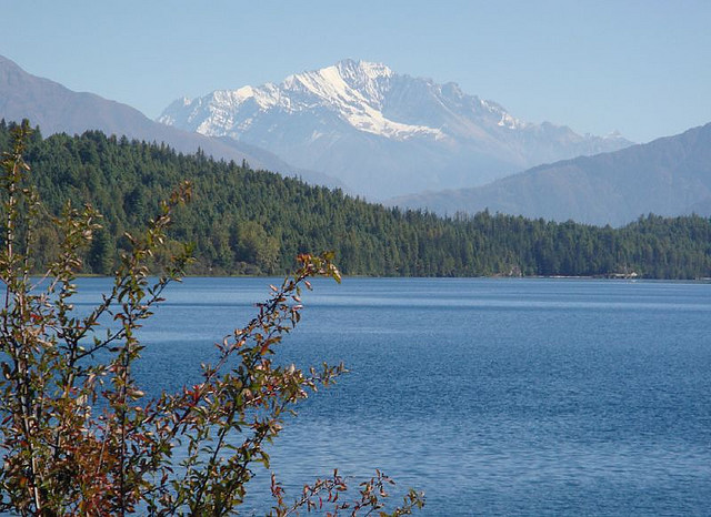 रमणीय रारा ताल